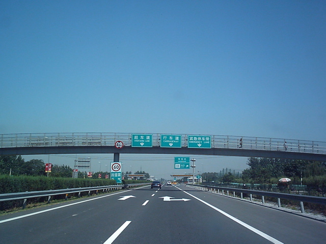 Chinese expressway. DF08 2004 image.